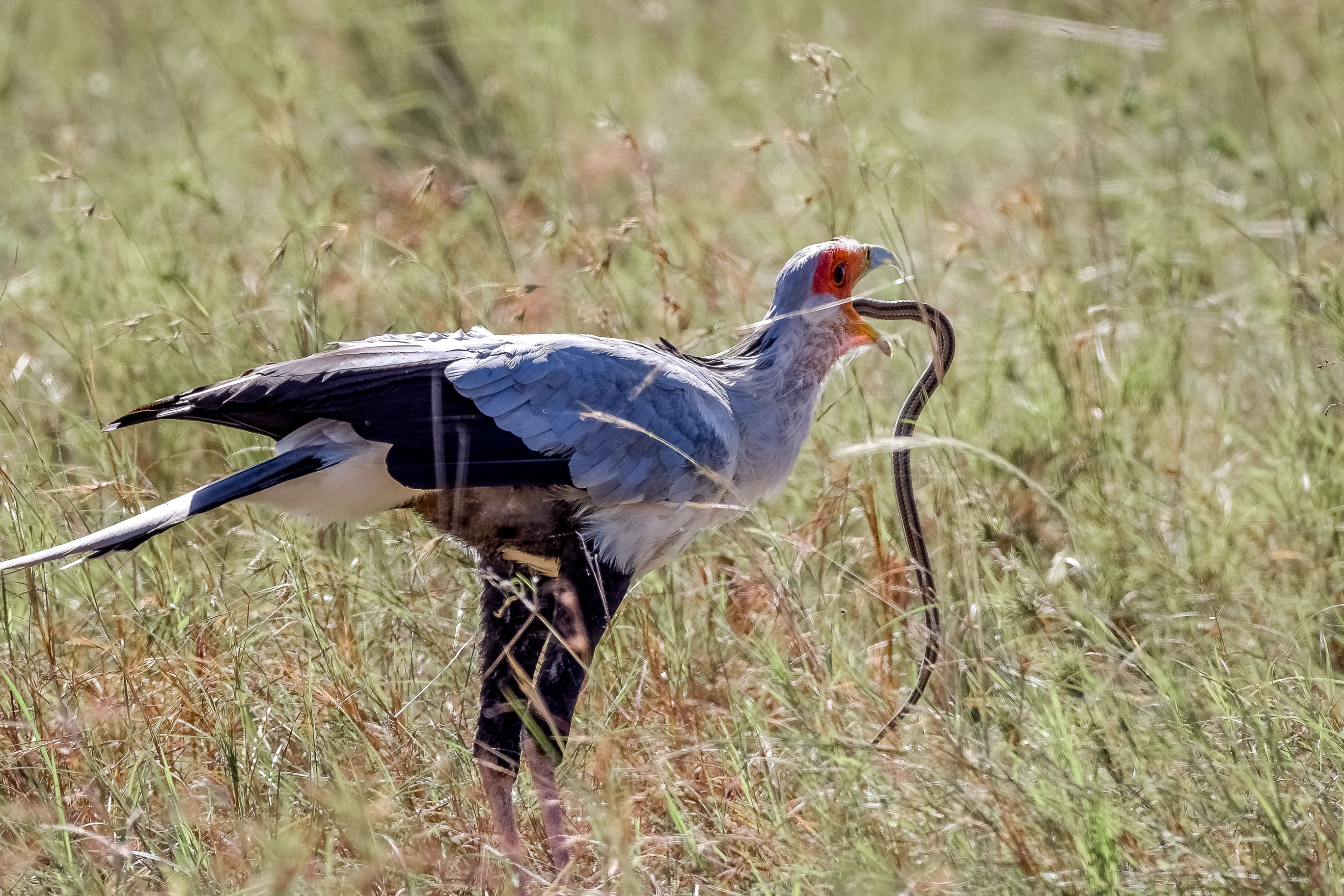 Secretarybird, serengeti, stomping, snake, prey, eating, may, 2016